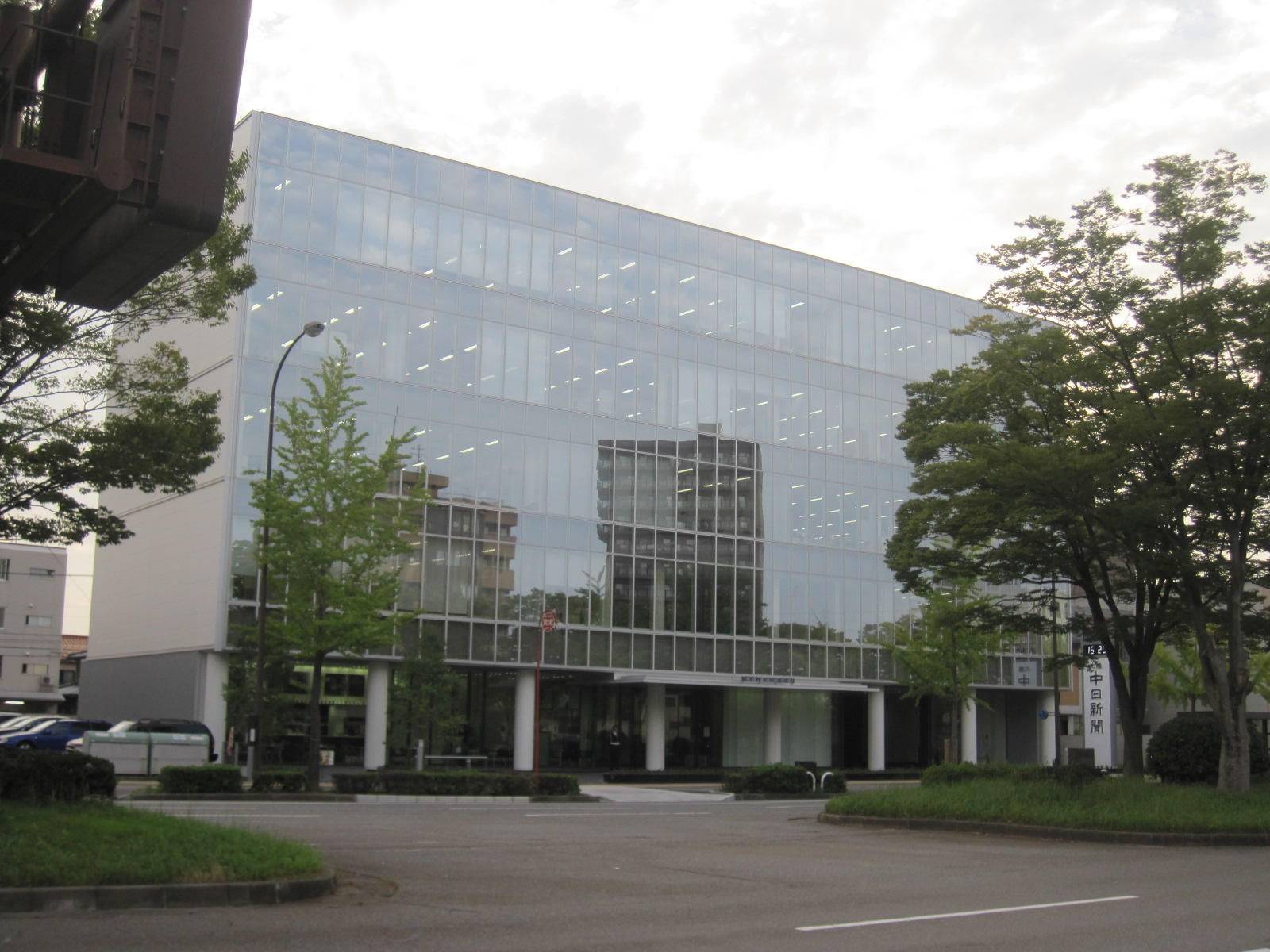 Chunichi Shimbun Hokuriku Headquarter